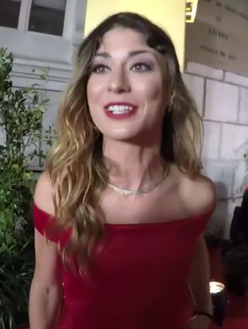 Rita Camarneiro (b. 1988), Portuguese humorist and TV presenter, on the red carpet of the XXII Portuguese Golden Globes, on 21 May 2017.